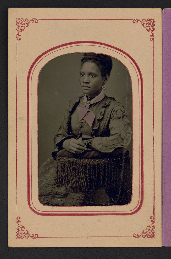 Portrait of educator, Laura A. Moore Westbrook